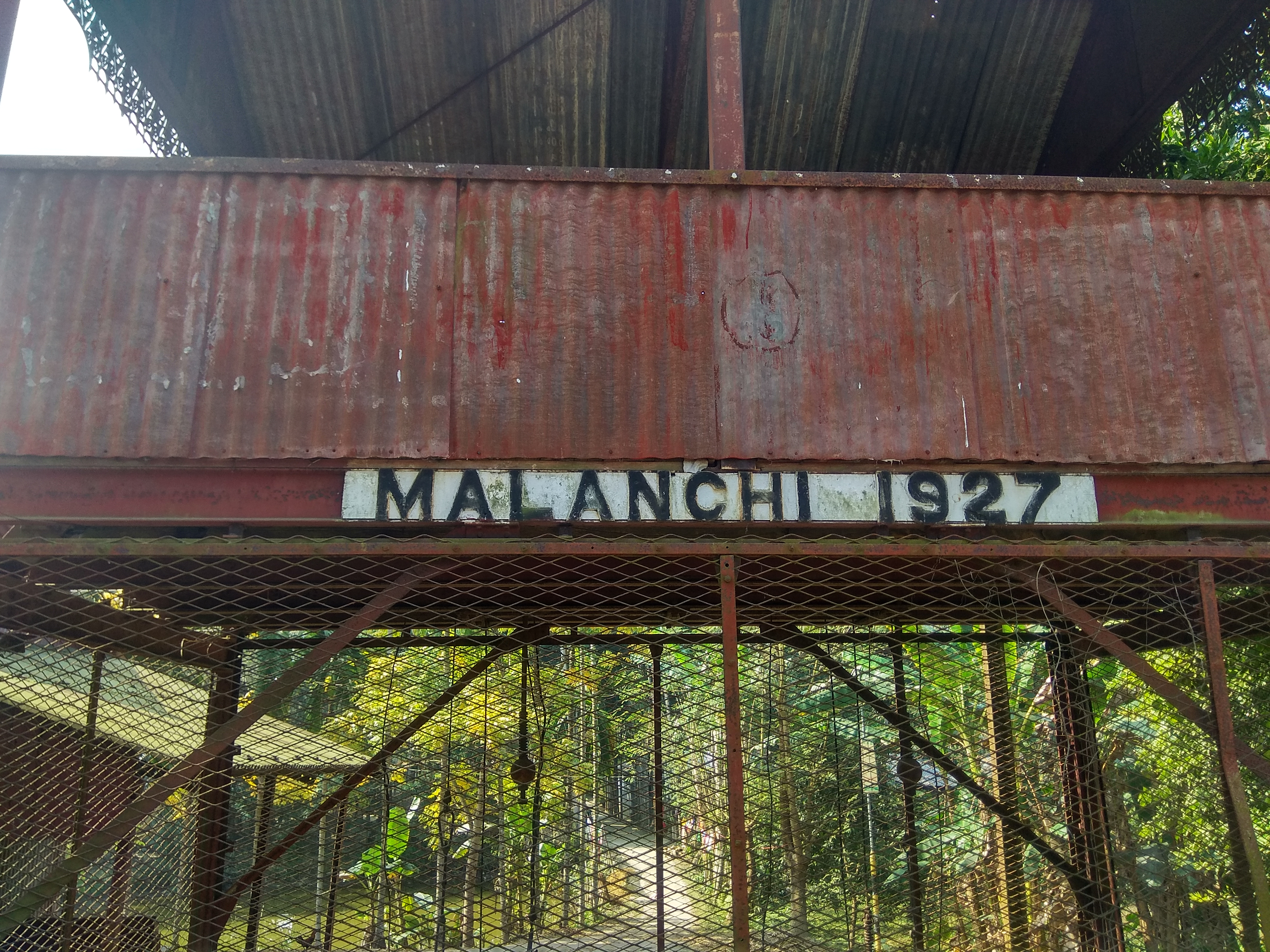 Malanchi Railway Station